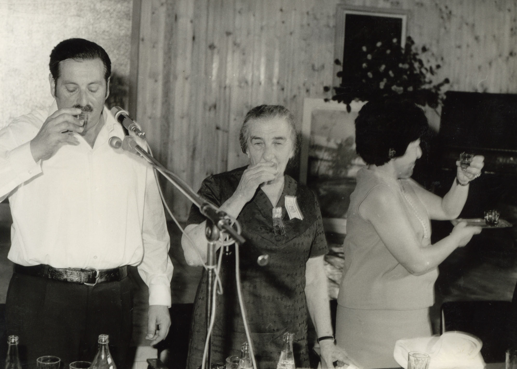 kiryat gat, People of Israel